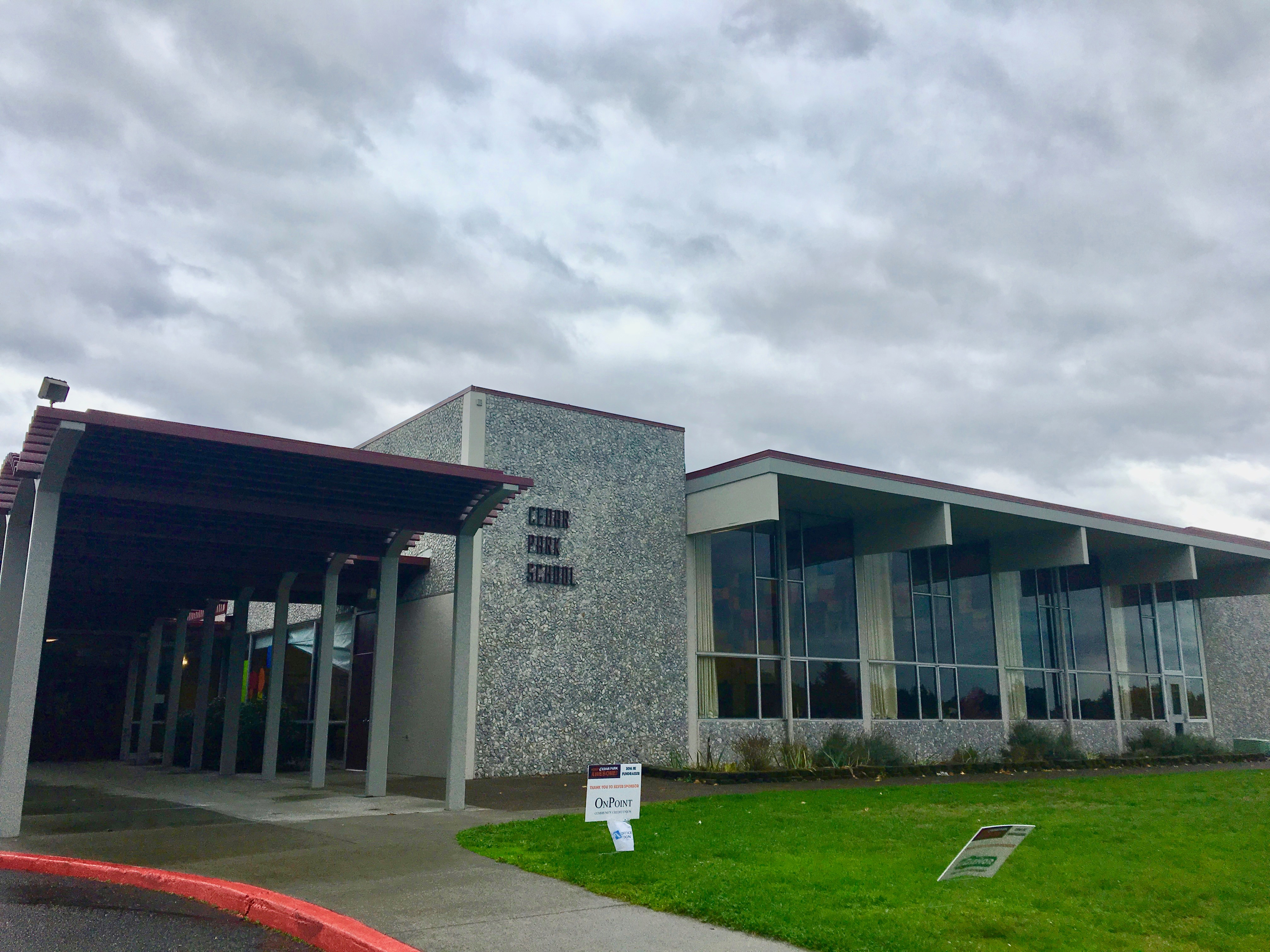 Cedar Park Middle School in Oregon. Originally named Cedar Park Intermediate School (and commonly called a Junior High School) and serving grades 7–9, the school was changed in 1994 to a middle school, serving grades 6–8.